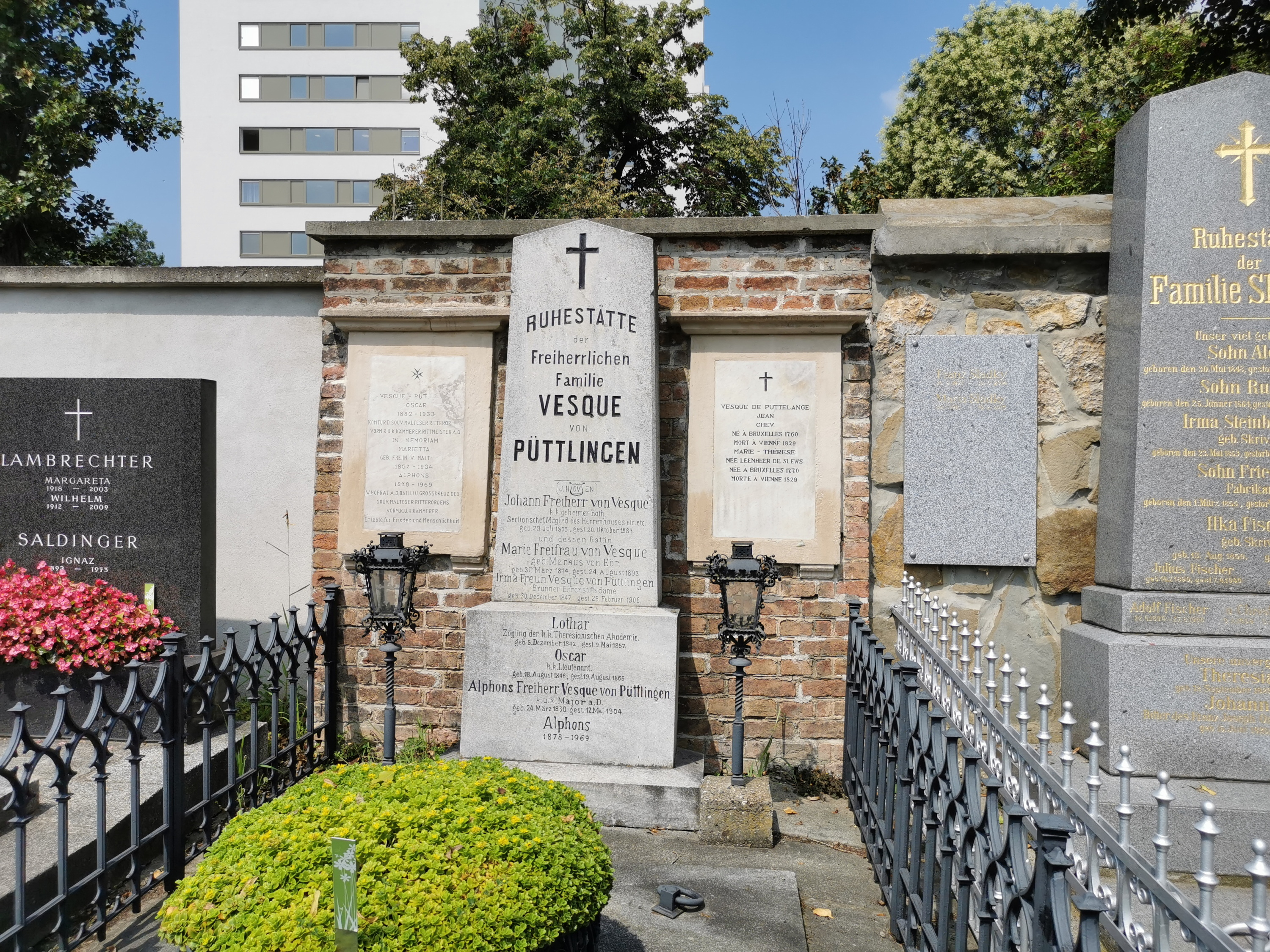 Cemetery of the Penzing parish, tomb of composer Johann Vesque von Püttlingen